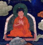 Wonre Darma Sengge b.1177 - d.1237, 2nd Abbot of Ralung Monastery